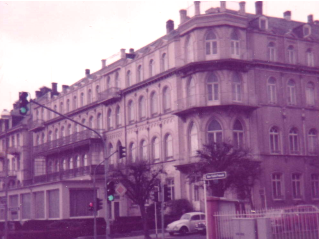 Historical hotel in Bad Homburg, Germany